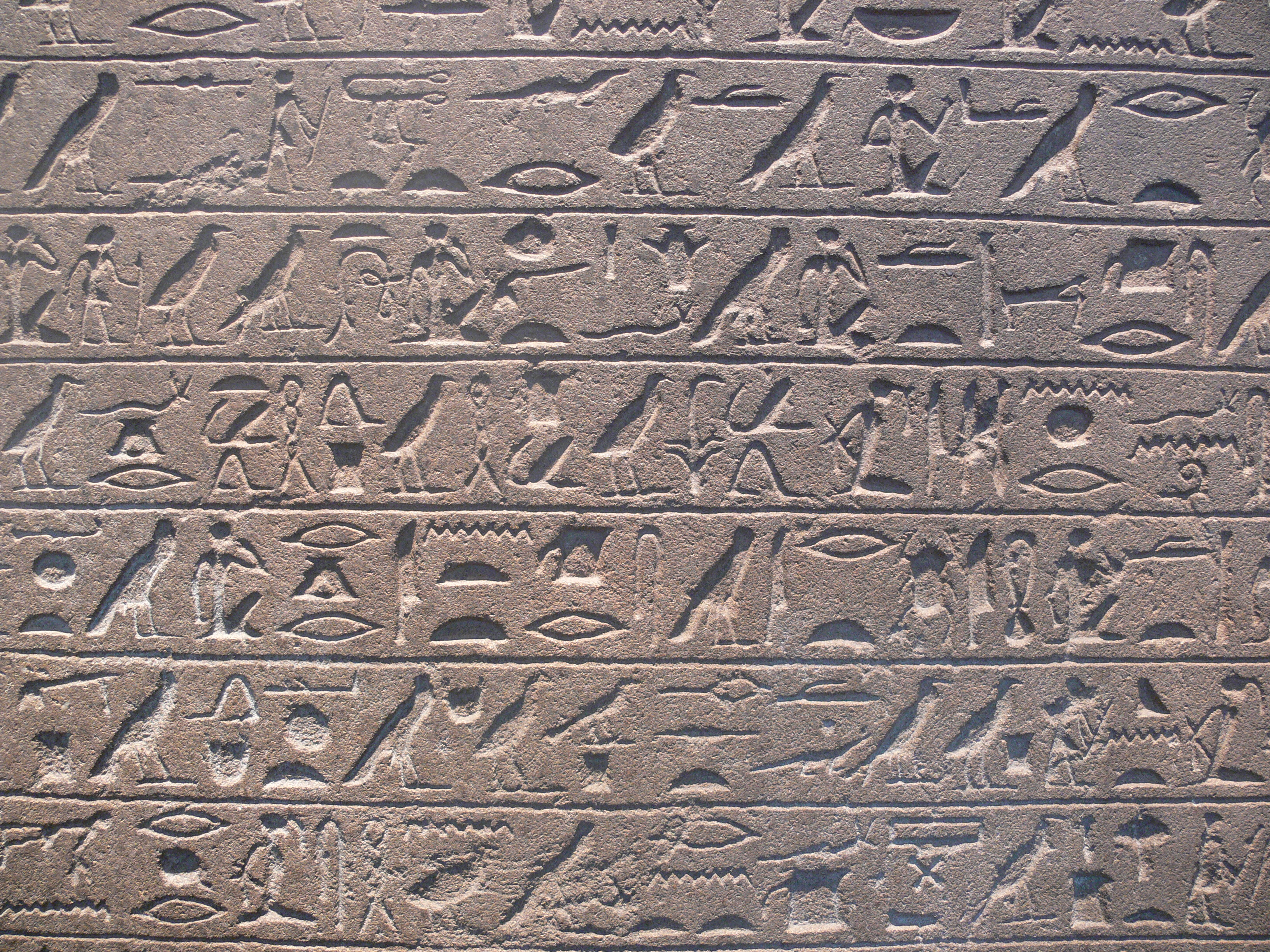 Border Stela of Senusret III. Middle Kingdom of Egypt, 12th dynasty, c. 1860 BC. A prisoner (hieroglyph) can be found in lines 3, 4, 5, and 6. Six lines of Egyptian hieroglyphs: Line 0.5 Line 1:Nile Crocodile Line 2:Lion Hindquarters Line 3: Line 4:Hand Line 5:Nile Crocodile, Legs Walking-(Away) Line 6:Man Falling, Collection: Ägyptisches Museum Berlin